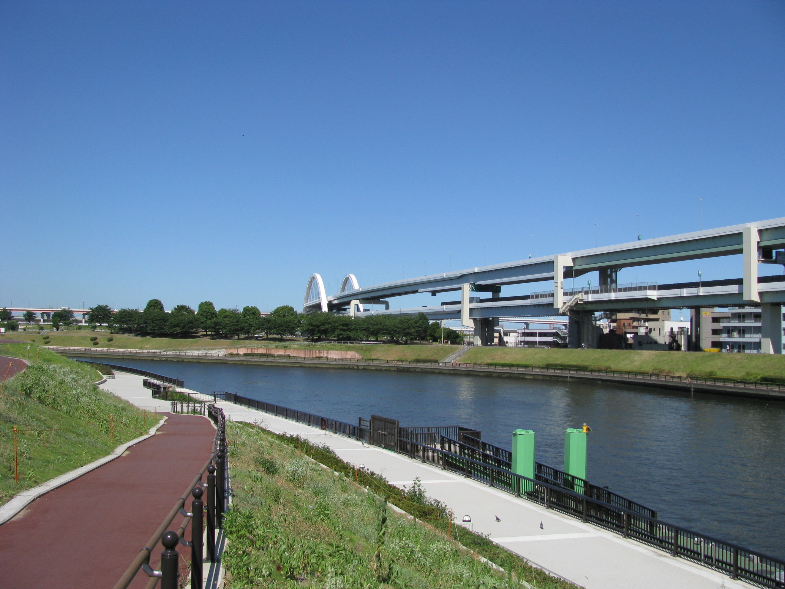 The Sumida-gawa. View from Toshima in Kita, Tokyo, Japan.